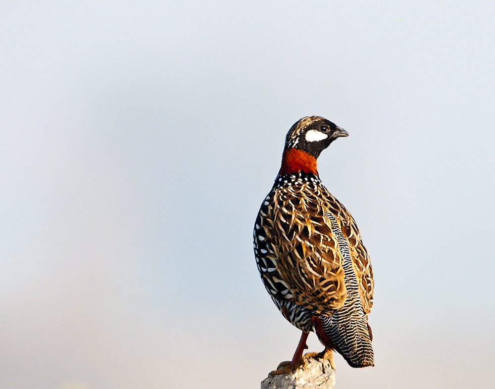 Francolinus francolinus is the Official State bird of Haryana, India. Photographed in Beel Akbarpur. Uttar Pradesh on 11th March 2012